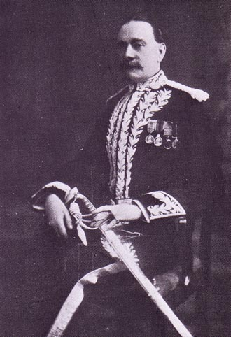 Sir Melville Leslie Macnaghten (1853-1921)